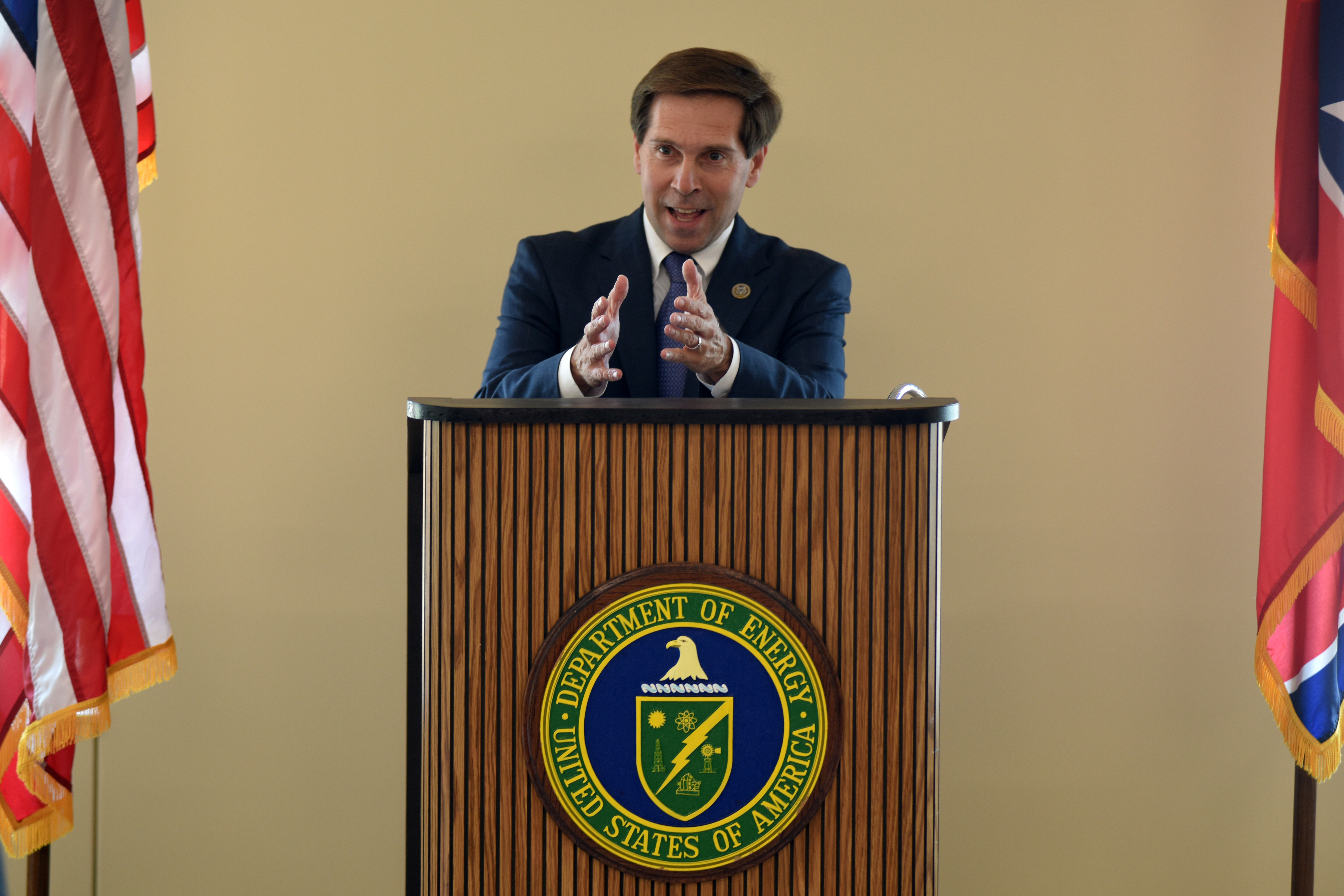 Congressman Chuck Fleischmann, Tennessee District 3, speaks during the dedication of the new Construction Support Building Nov. 20, 2017 at the Y-12 National Security Complex in Oak Ridge, Tenn. The three-story, 64,800-square-foot building will provide a combination of office and warehouse space and is the first permanent structure constructed as part of the Uranium Processing Facility project. (USACE Photo by Leon Roberts)